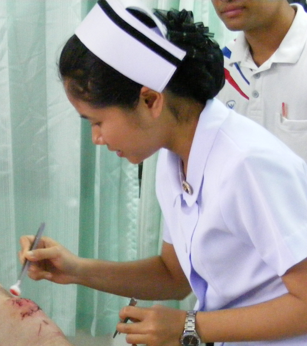 Certified nurse "Som" (a resident of Nakhoon Yai) in Na Wa Public Hospital (Thailand).